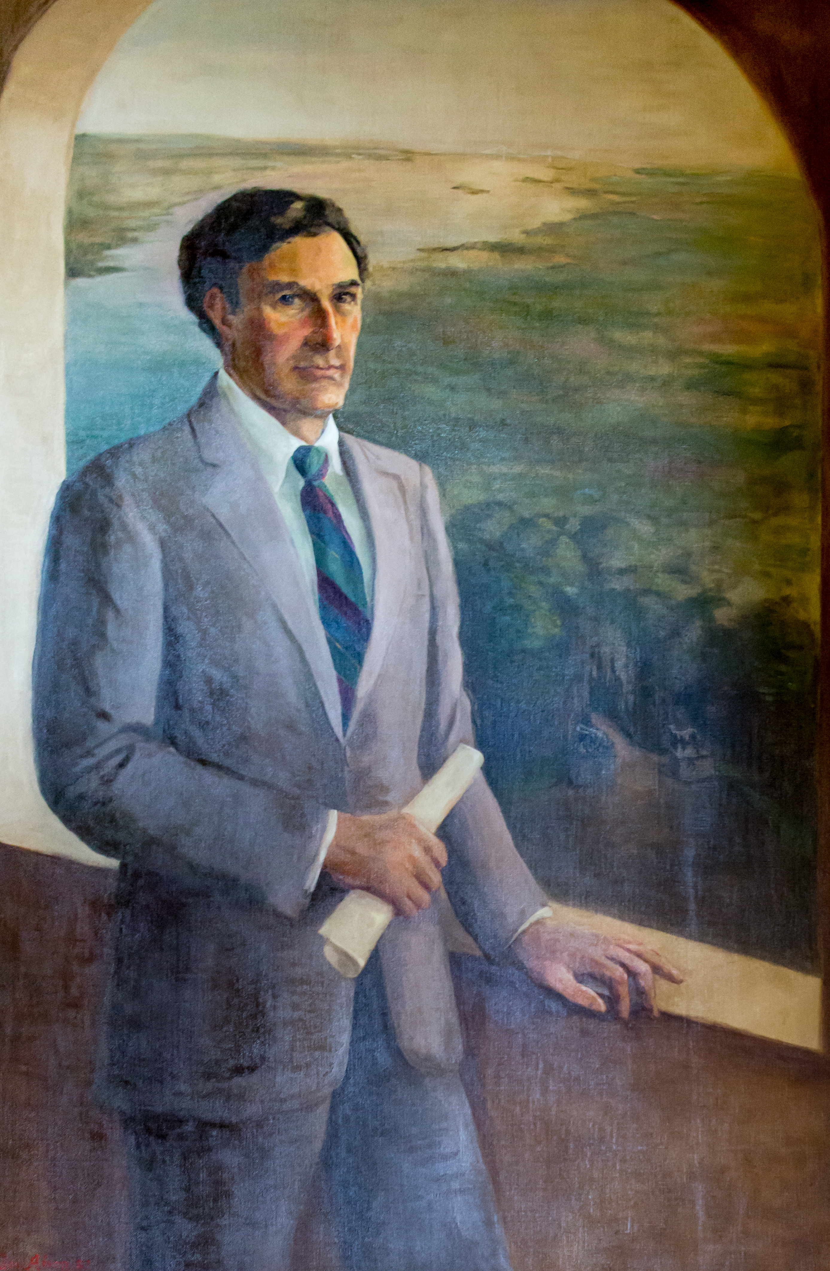 RI Governor John Chafee. Rhode Island State House collection.